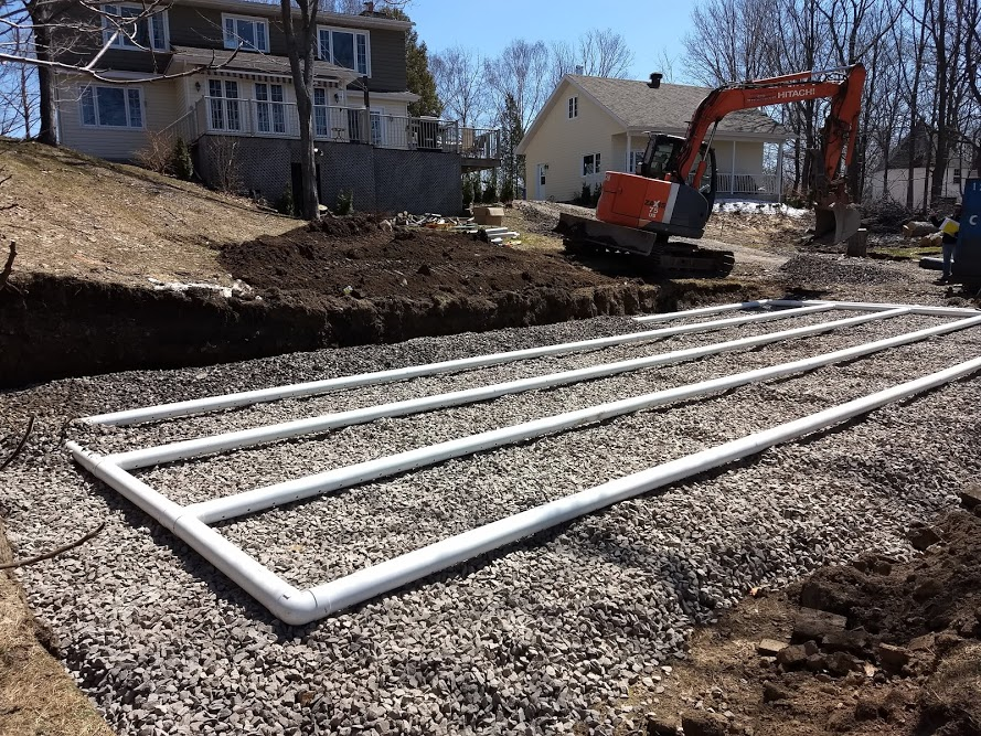 The drain field component of a residential septic system is being put in place